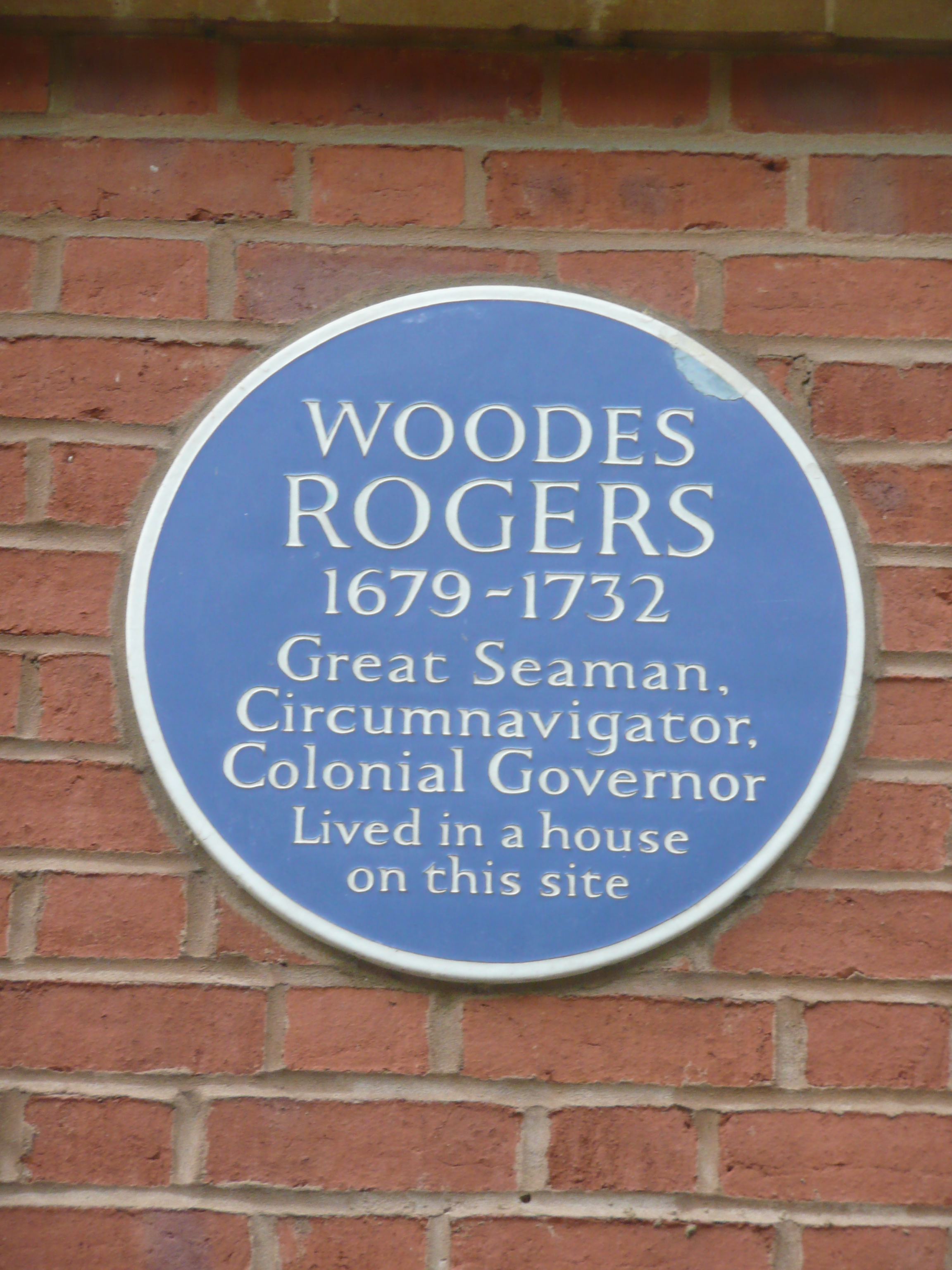 Blue plaque marking the former site of Rogers' house in Bristol, England